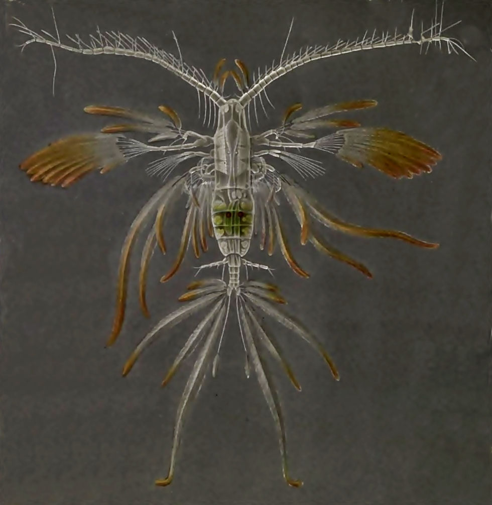 BHL - Augaptilus filigerus Cut-out from original (N71 w1150 (17745789629).jpg) shown below